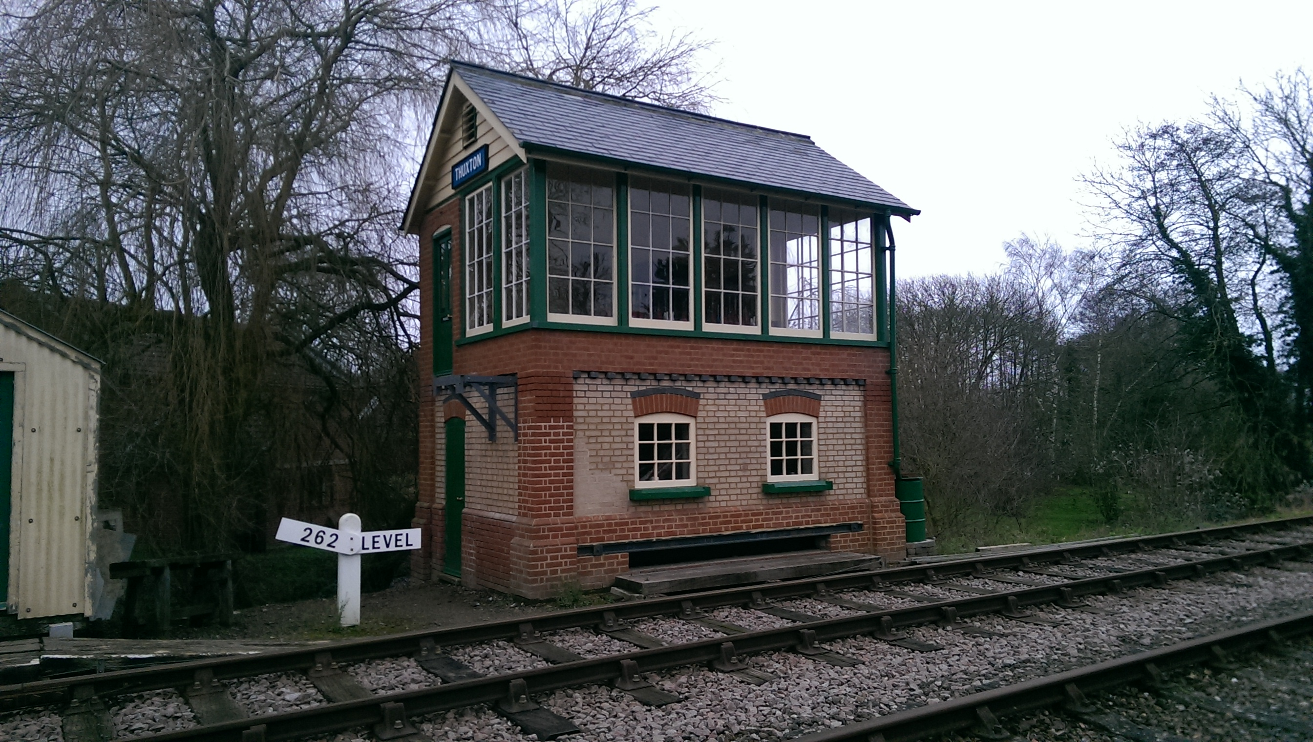 Thuxton signal box